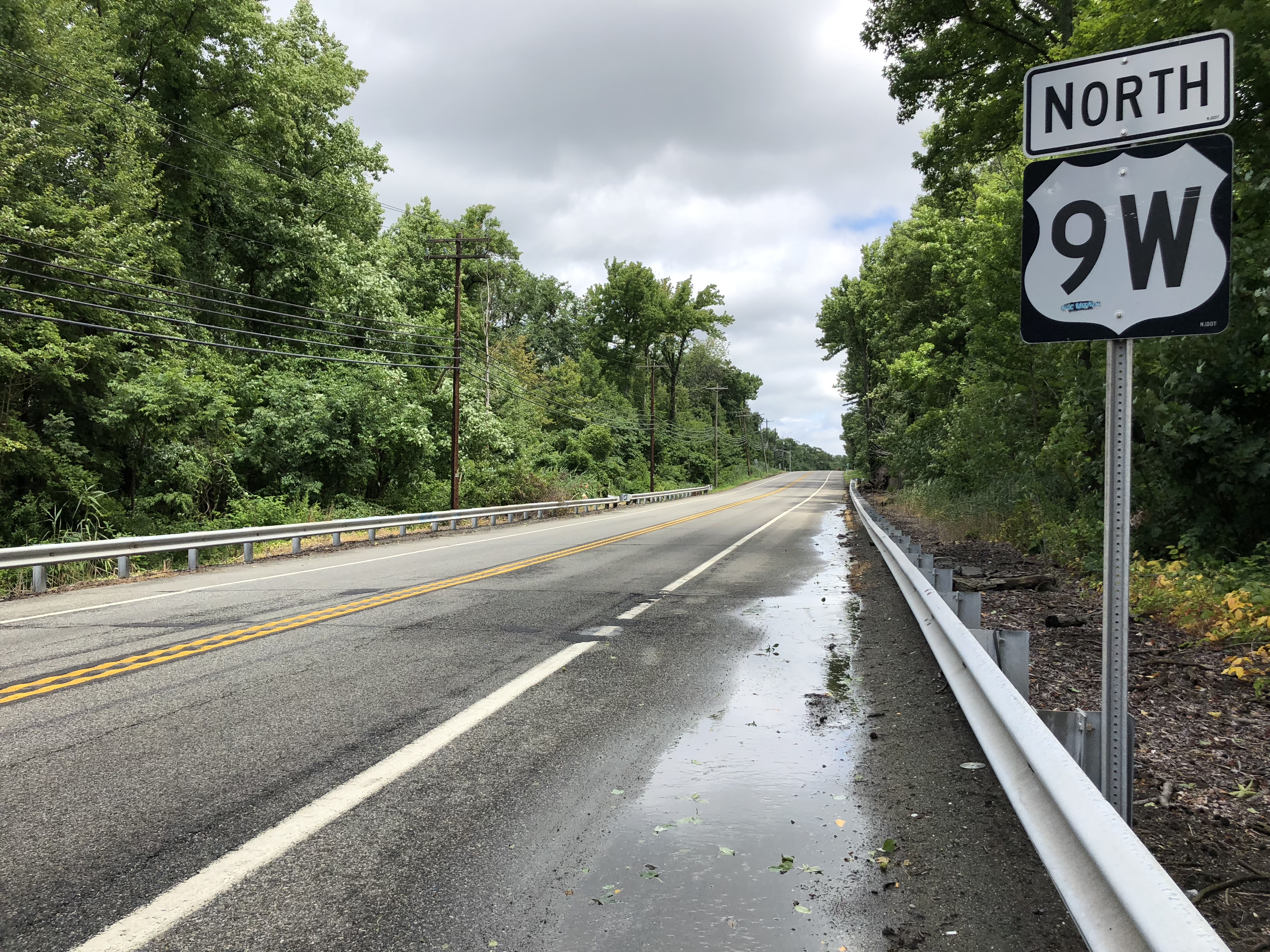 View north along U.S. Route 9W just north of The Esplanade in Alpine, Bergen County, New Jersey